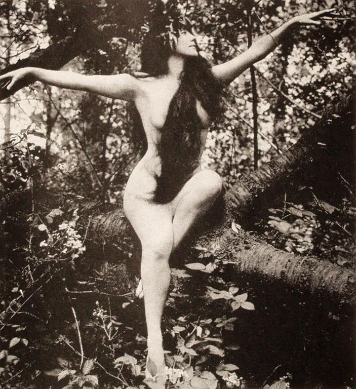 Actress Annette Kellerman in the film A Daughter of the Gods (1916).